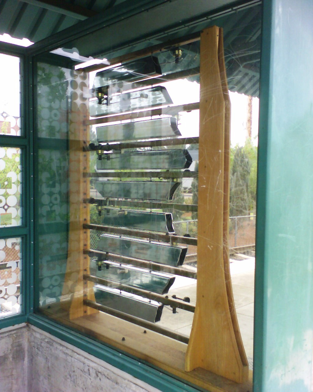 Hawthorn Farm wind chime